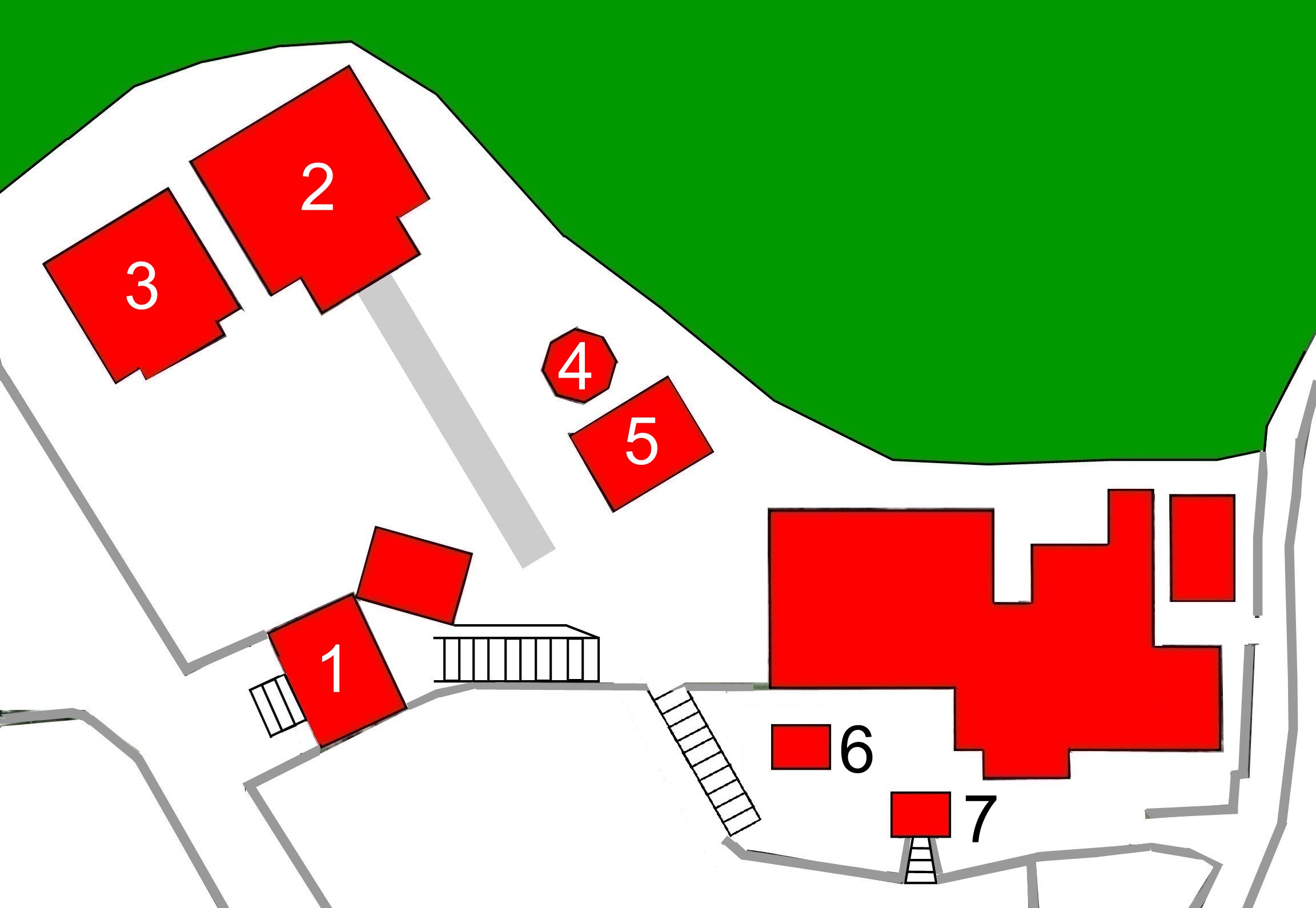 Layout of Butsumoku-ji temple at Uwajima, Pref. Ehime, Japan